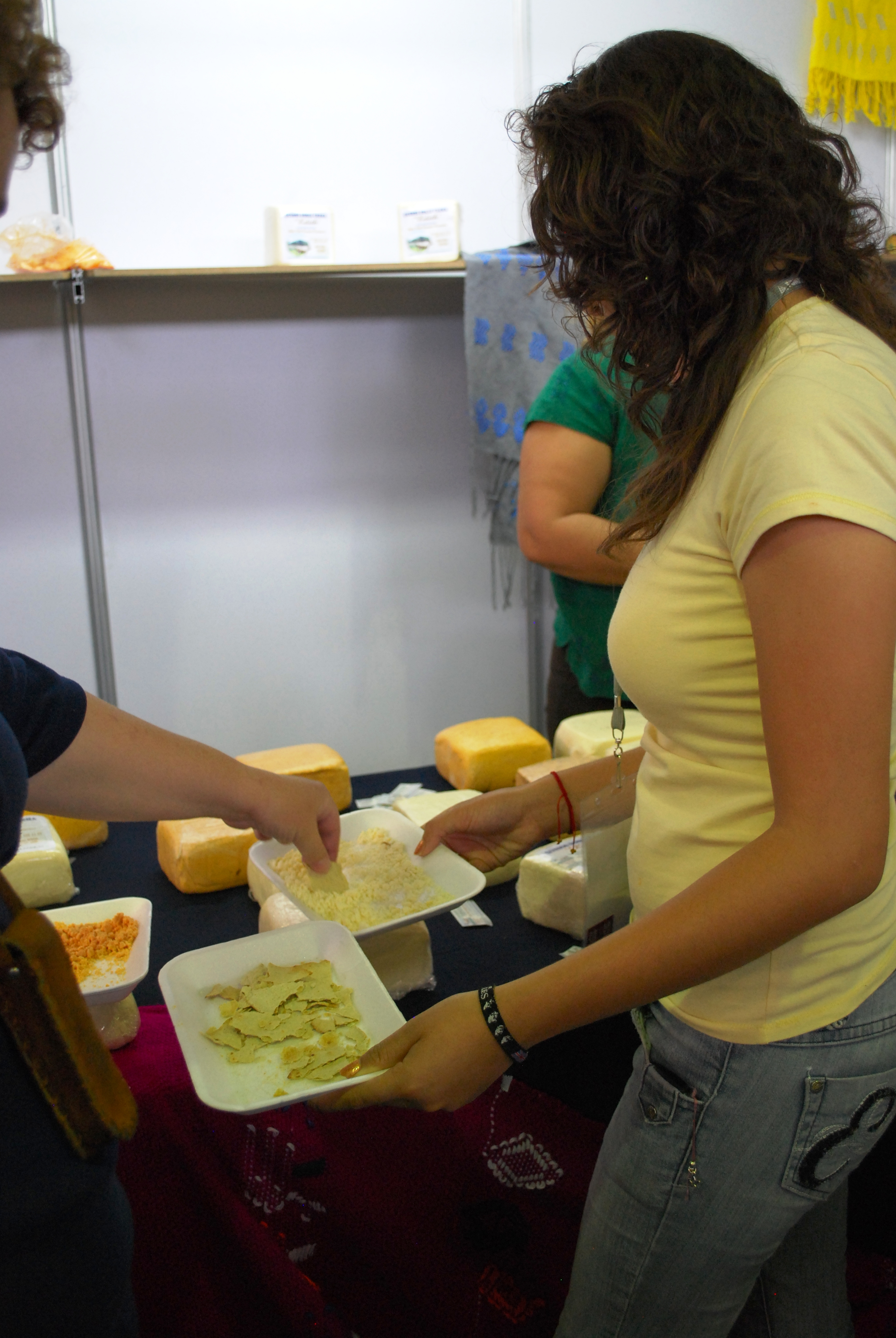 Stand selling doble crema cheese from Chiapas at the 2010 FONART exhibition in Mexico City